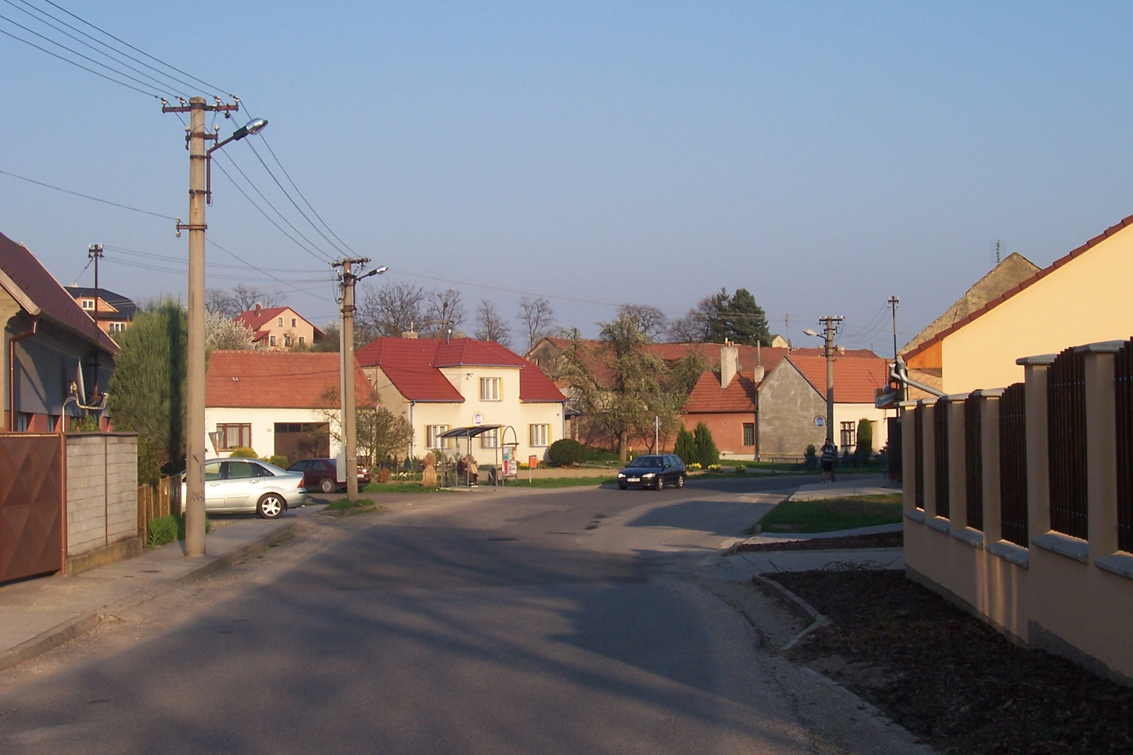 Sušice in Uherské Hradiště District, Czech Republic. Center of the village.